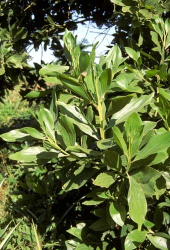 Leaves and growth habit of Acacia simplex, Atiu, Cook Islands.